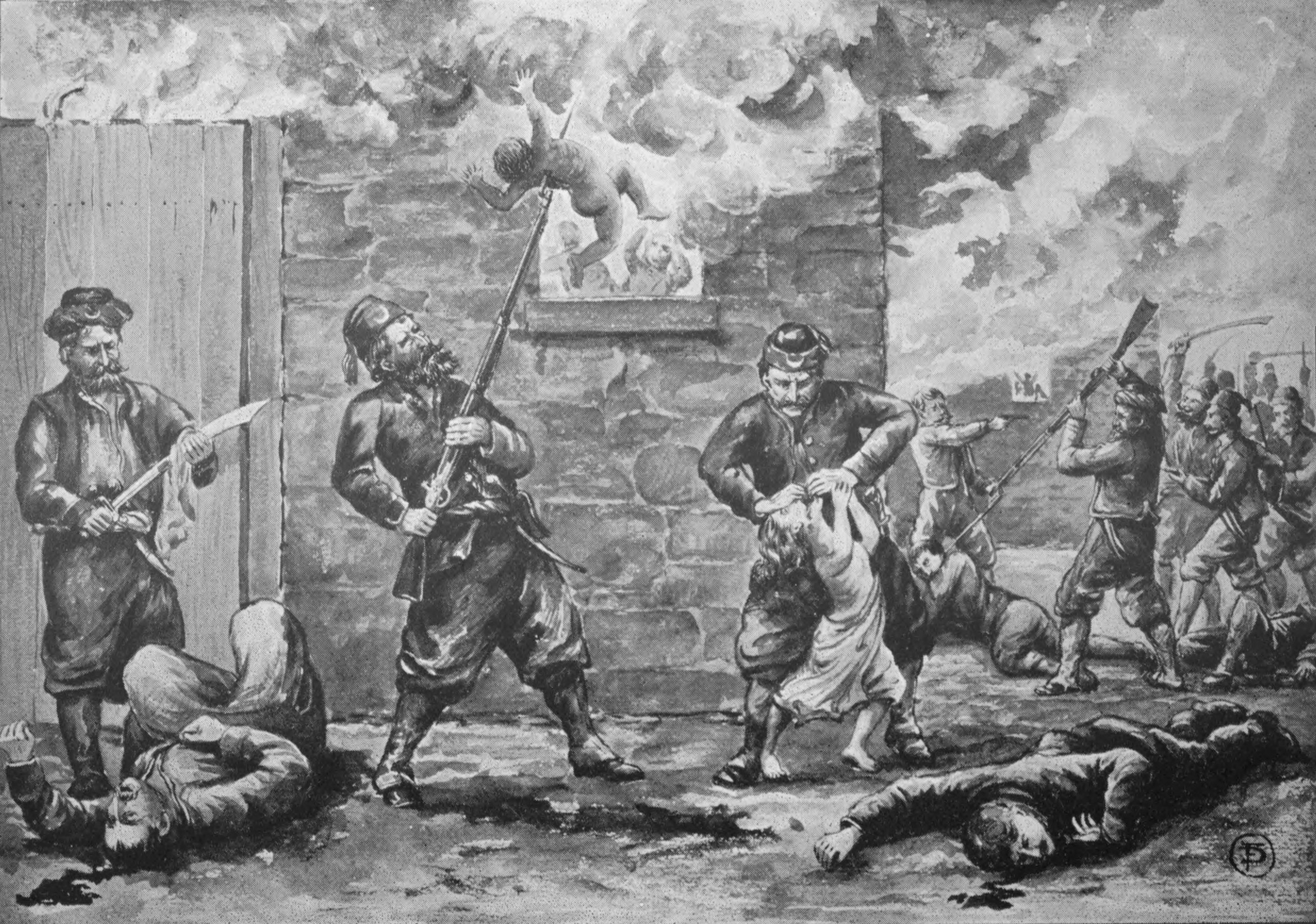 Sketch by an eye-witness of the massacre of Armenians during the Hamidian massacres